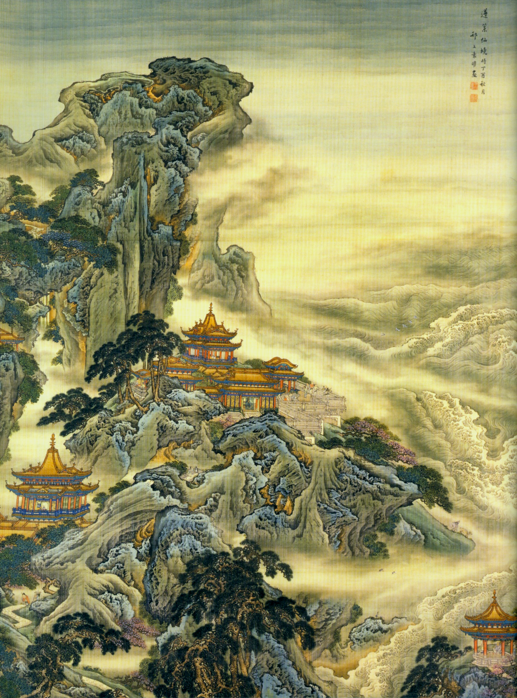 Penglai (detail), depiction of one of the mythical islands. Hanging scroll, ink and colors on silk.